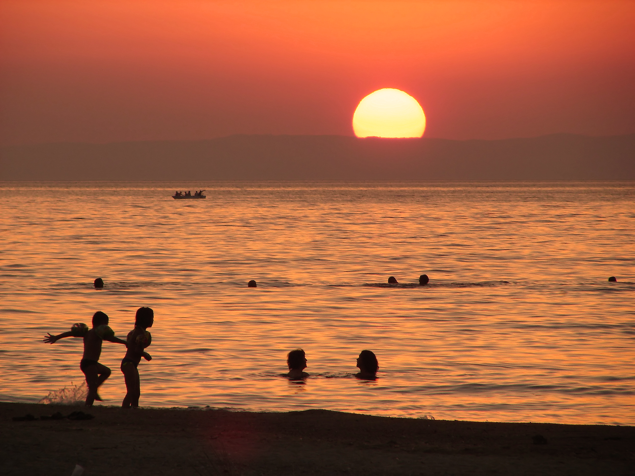 Sunset at Avşa Island, Turkey